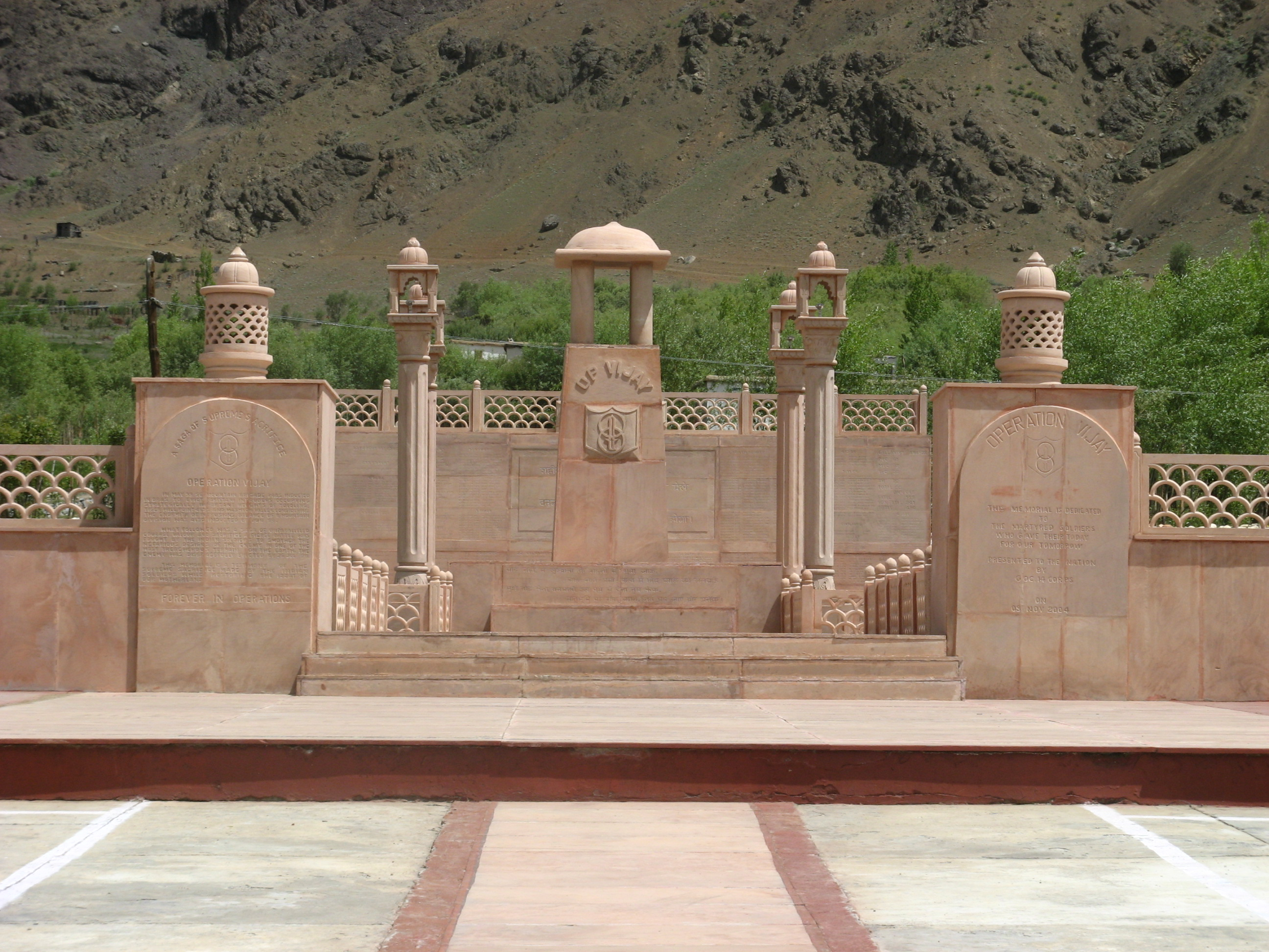 War Memorial at Dras of Operation Vijay